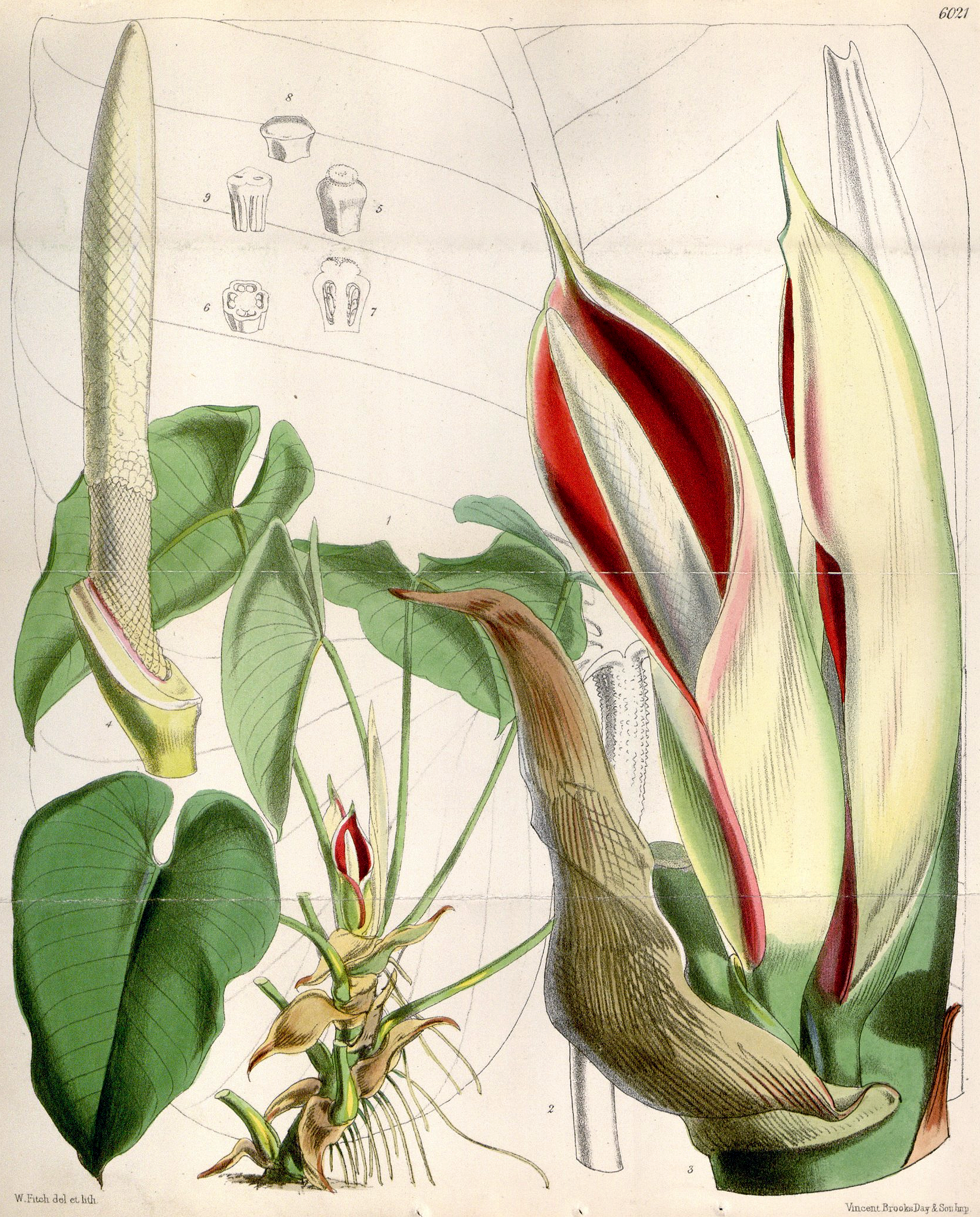 Philodendron ornatum botanical drawing